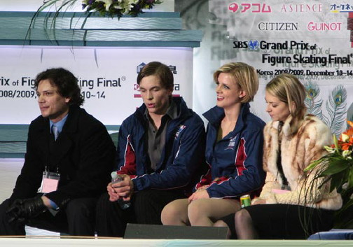 Madison Hubbell & Keiffer Hubbell (USA) sit with coaches Iaroslava Netchaeva and Iouri Tchesnitchenko in the kiss & cry following their free dance at the 2008-2009 Junior Grand Prix Final.